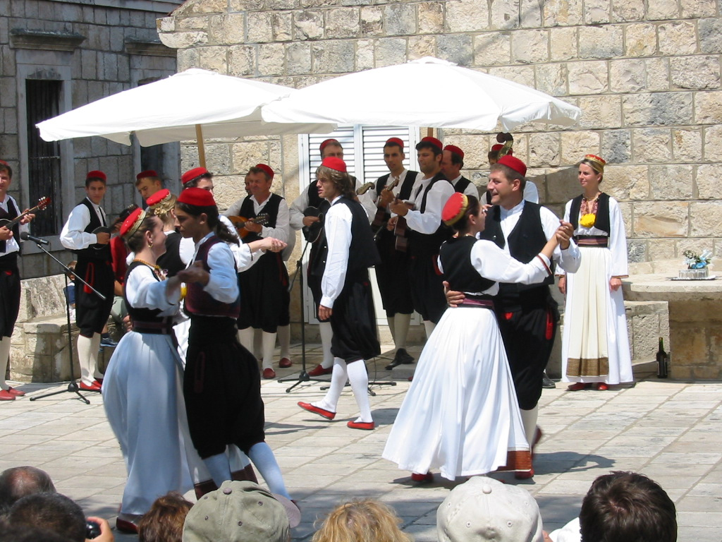 Folk dancers in the village of Cilipi, Croatia. The entire village becomes a tourist attractions at the weekend, for the dancing and the lace market. Traditional costumes are worn by the villages